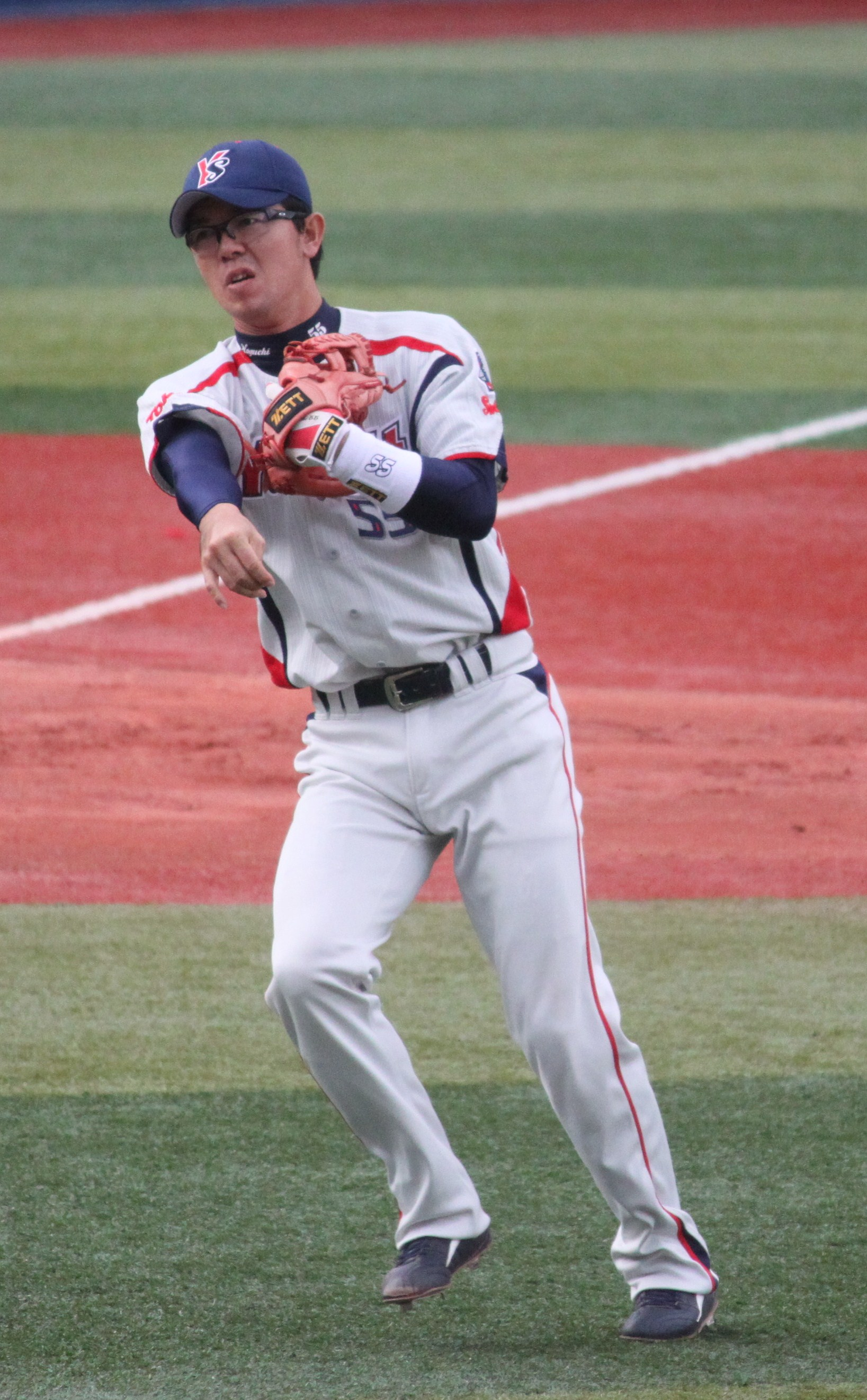 Yoshiyuki Noguchi, infielder of the Tokyo Yakult Swallows, at Yokohama Stadium.